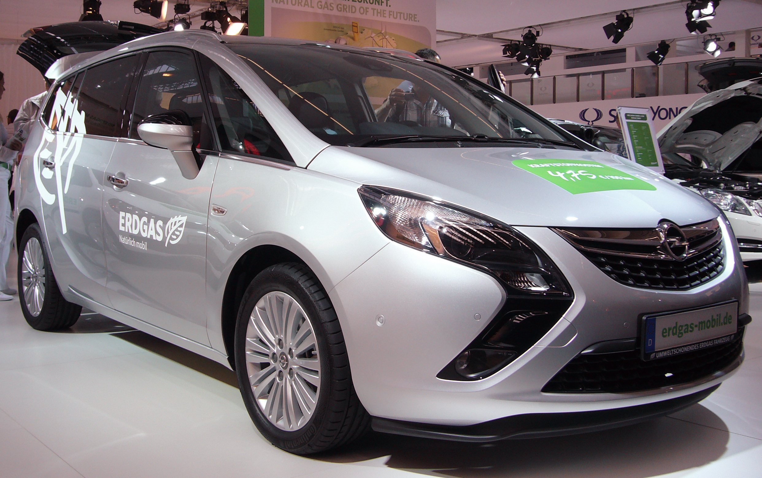 Opel Zafira Tourer at IAA Frankfurt 2011